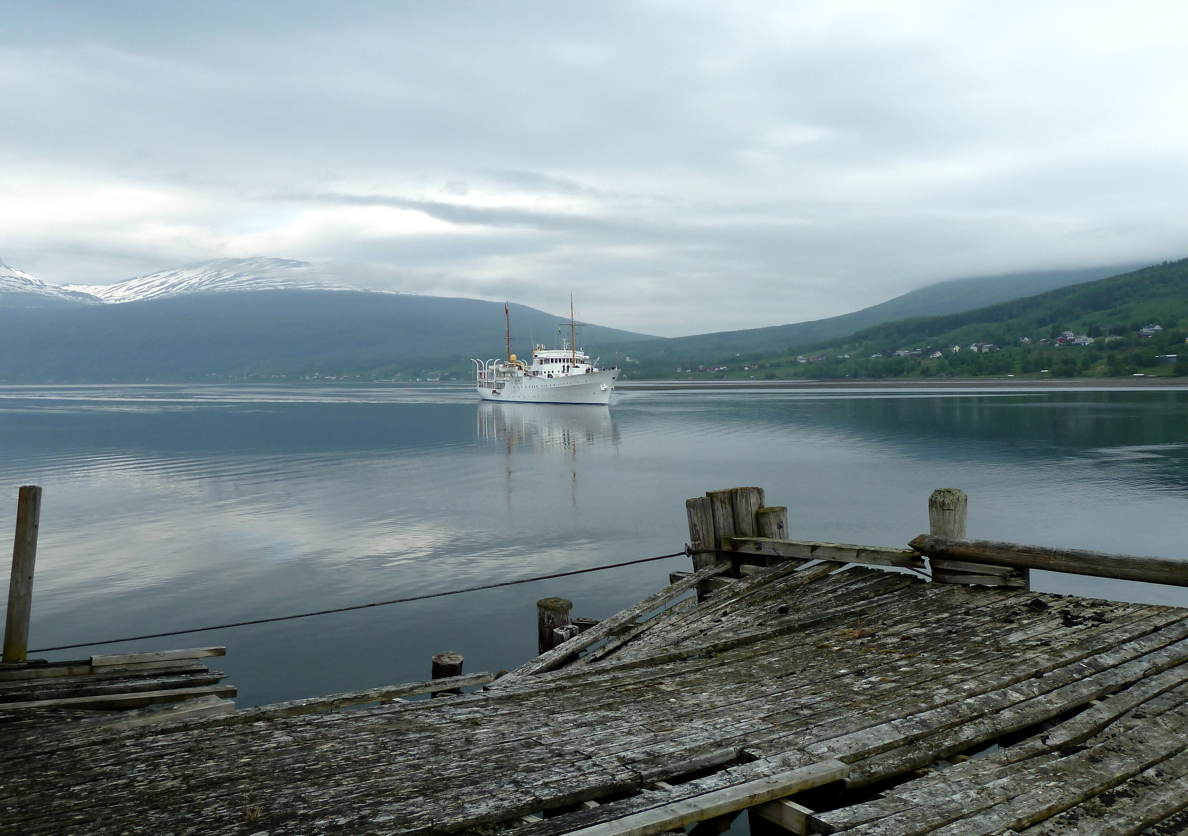 Royal yatch "Norge" in the Lavangen-fjord in Troms, Norway.